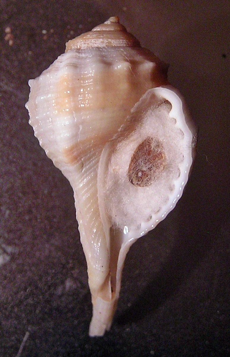 Ranularia oblita Lewis & Beu, 1976, a triton shell from the family Ranellidae; Philippines Category:Ranellidae